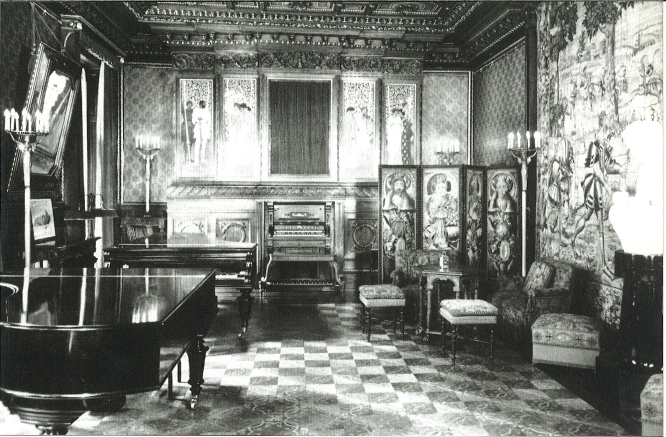 The Musicsalon in the Palais Wittgenstein. To the right a bust of Beethoven by Max Klinger.